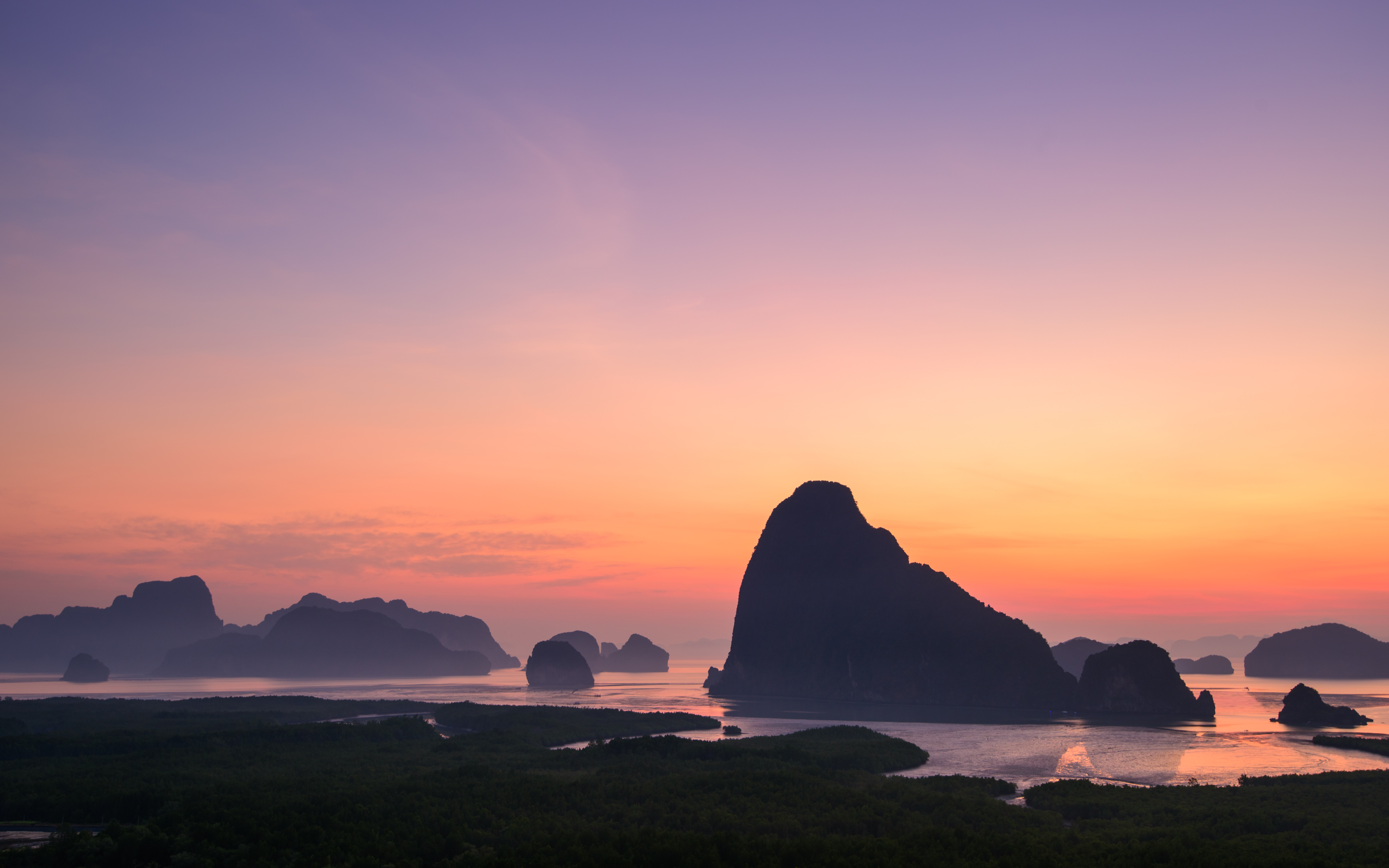 Limestone islets in Phangnga Bay, Ao Phangnga National Park, Phangnga Province